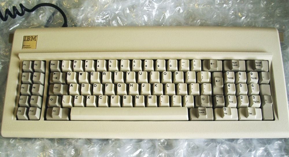 IBM model F, IBM PC/XT keyboard with 83 keys